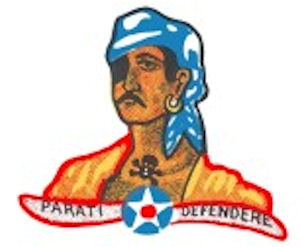 Distinctive Unit Insigne of the 6th Composite Group (based on crest of coat of arms)